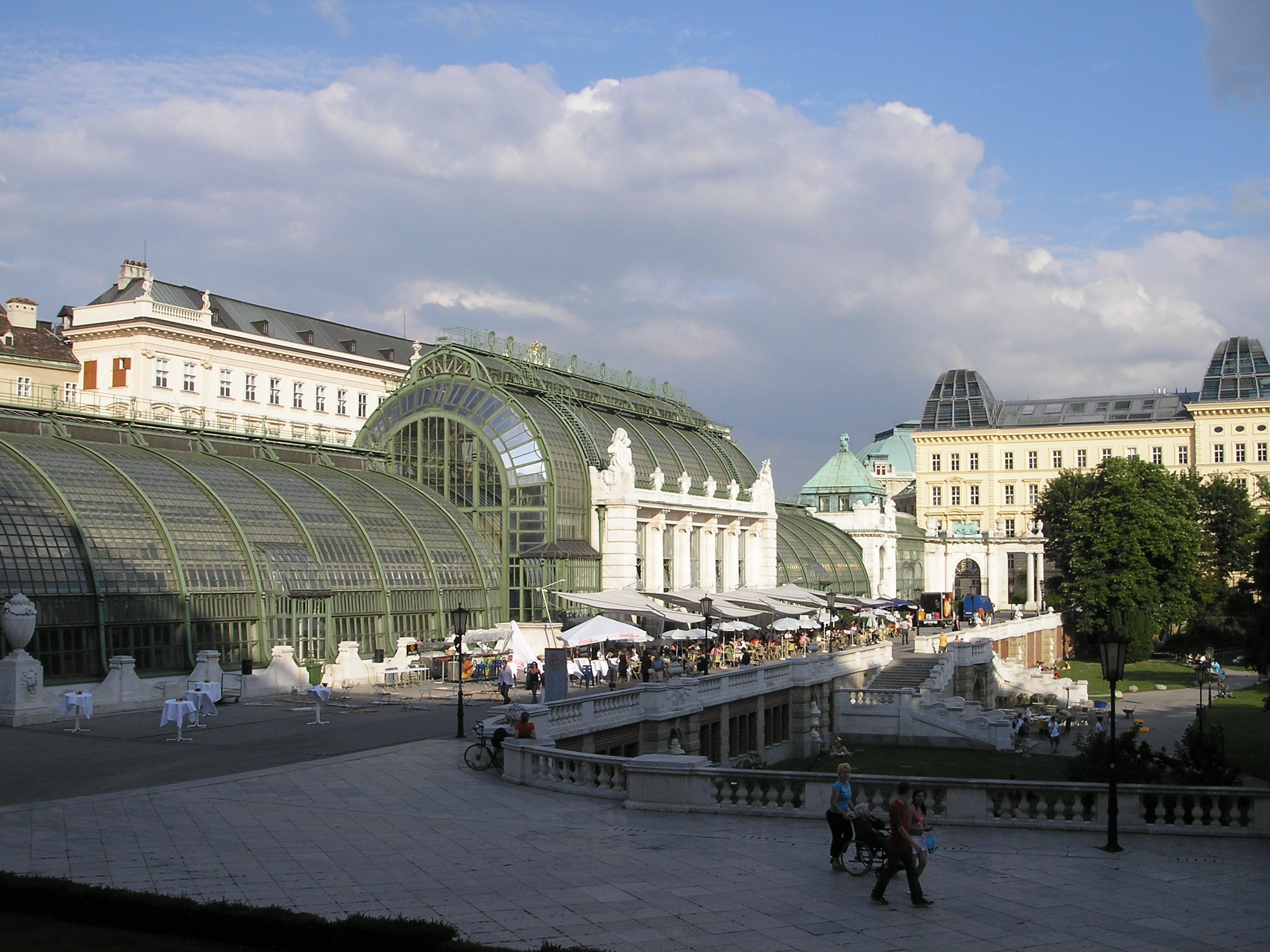 Image of the Palmenhaus (Palm House) in the Burggarten, Hofburg palace, Vienna.